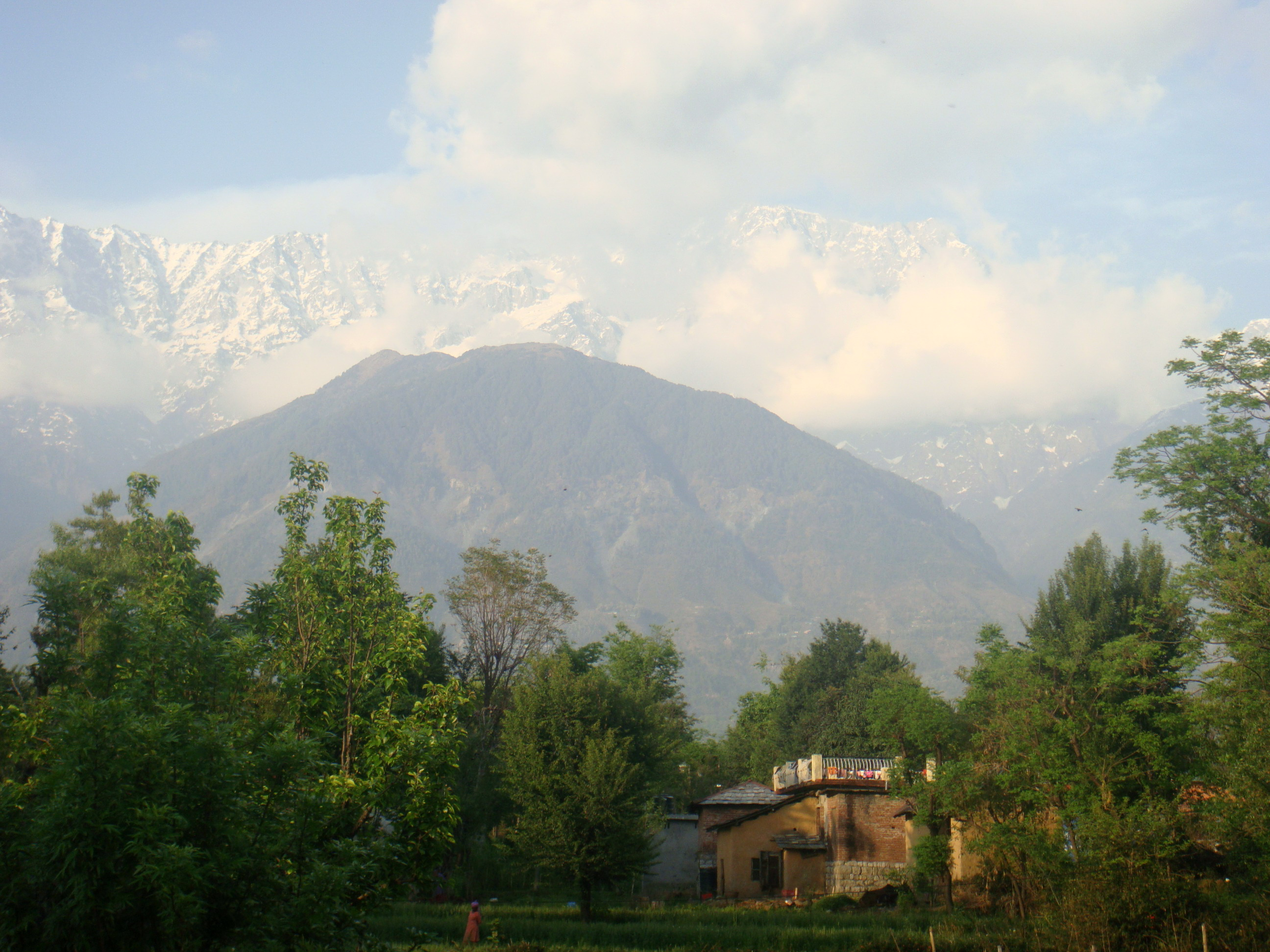 Kunpan Cultural School (ES Tibet foundation) in Dharamsala, Himachal Pradesh, India.